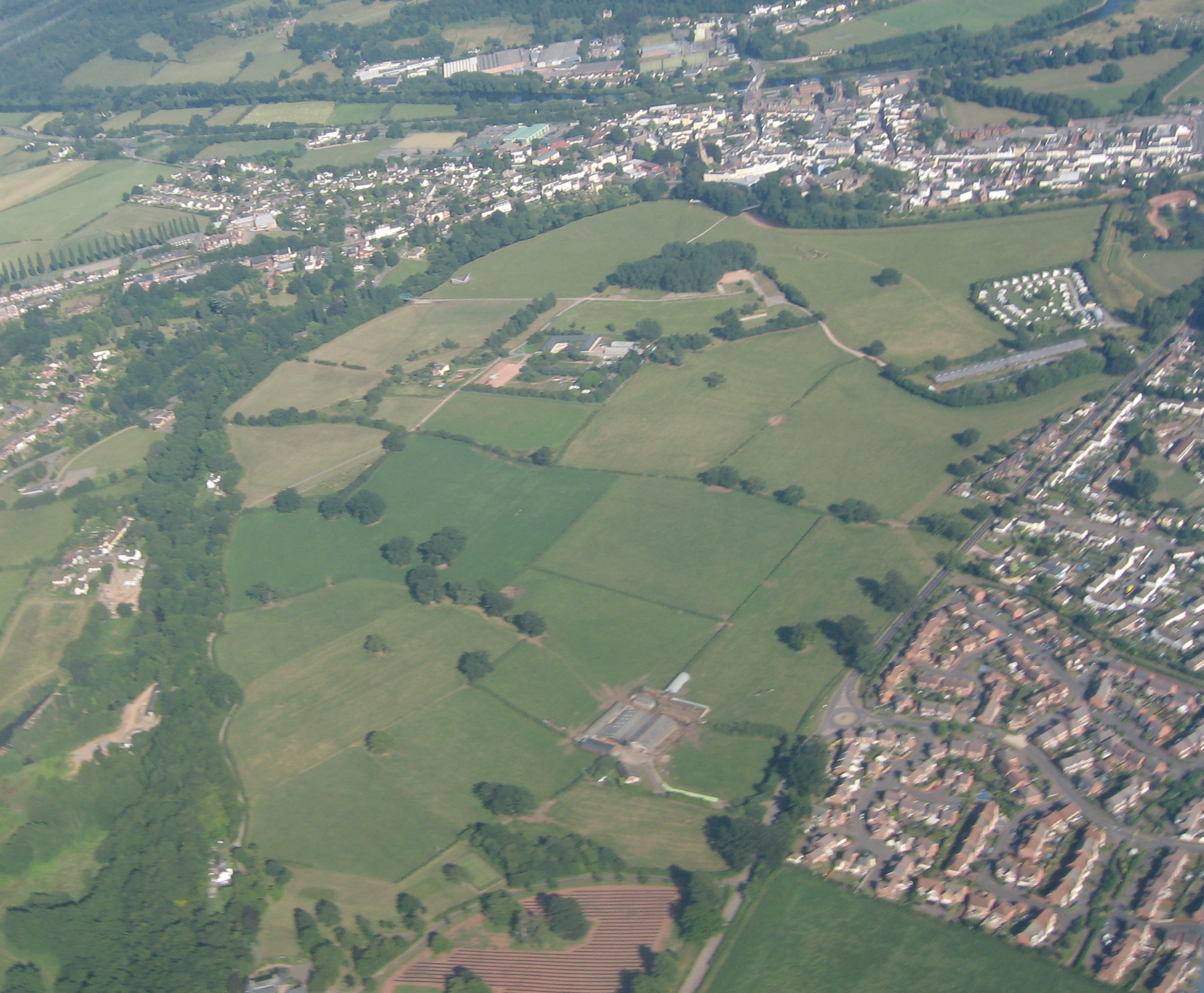 Ariel Picture Vauxhall Fields from the the North West looking South East